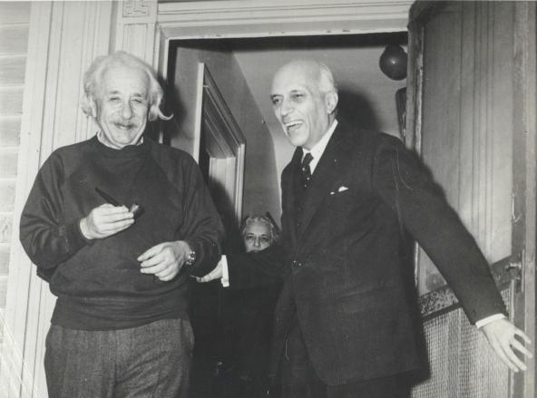 Jawaharlal Nehru with Einstein, 1949